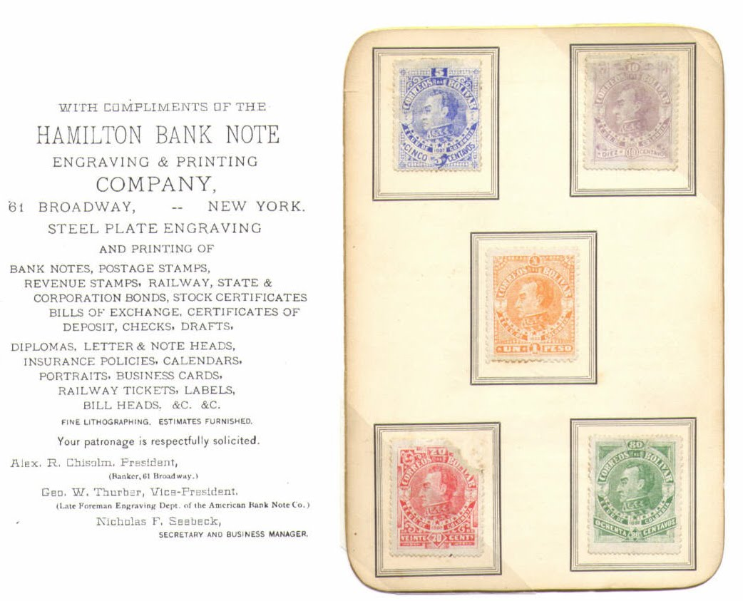 Between 1882 and 1891, the Hamilton Bank Note Company (Seebeck) produced stamps for the Colombian State of Bolivar. Shown here is a sales representative’s sample card with the issues of 1882-1883. These stamps were produced during the one year that Hamilton and Seebeck were at 61 Broadway in New York City. From the Bill Welch collection. The wording on the left is believed to be on the reverse of the card.